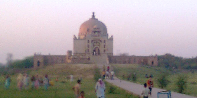 Tomb of Khwaja Khizar, Sonipat